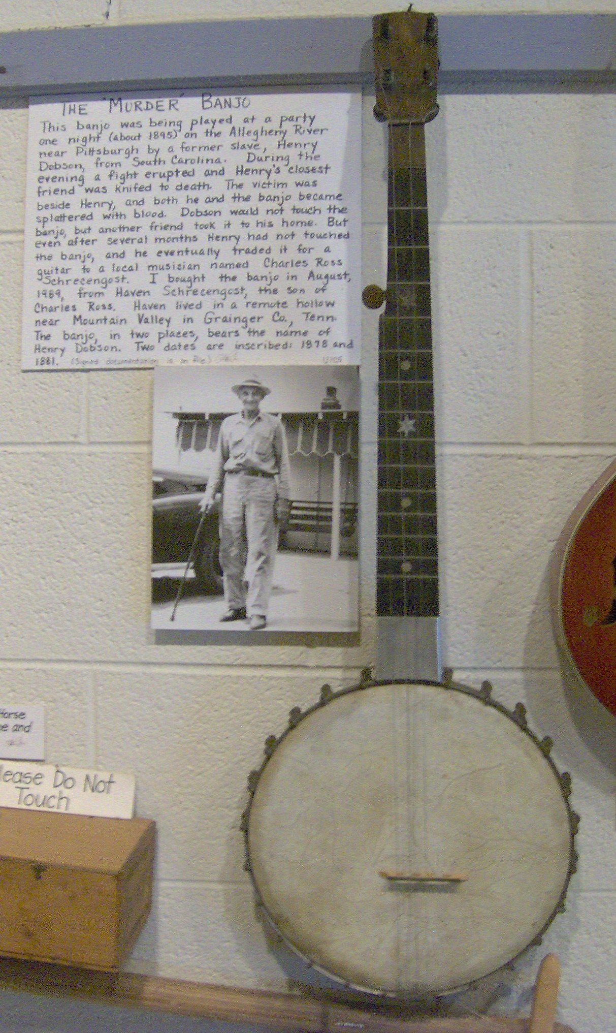 The "murder banjo" at the Museum of Appalachia in Norris, Tennessee, USA. The banjo was owned by an African-American banjo player named Henry Dobson in the latter half of the 19th century. One night around 1895, Dobson was playing along the Allegheny River in Pittsburgh, Pennsylvania when a fight erupted and his closest friend was knifed to death, splattering blood all over the banjo. Dobson refused to play it again, and eventually traded it to Charles Ross Schrecengost for a guitar. Museum founder John Rice Irwin obtained the banjo from Schrecengost's son, Haven (a resident of Grainger County, Tennessee) in 1989. Dobson's name is inscribed on the banjo in two places, with the dates 1878 and 1881.